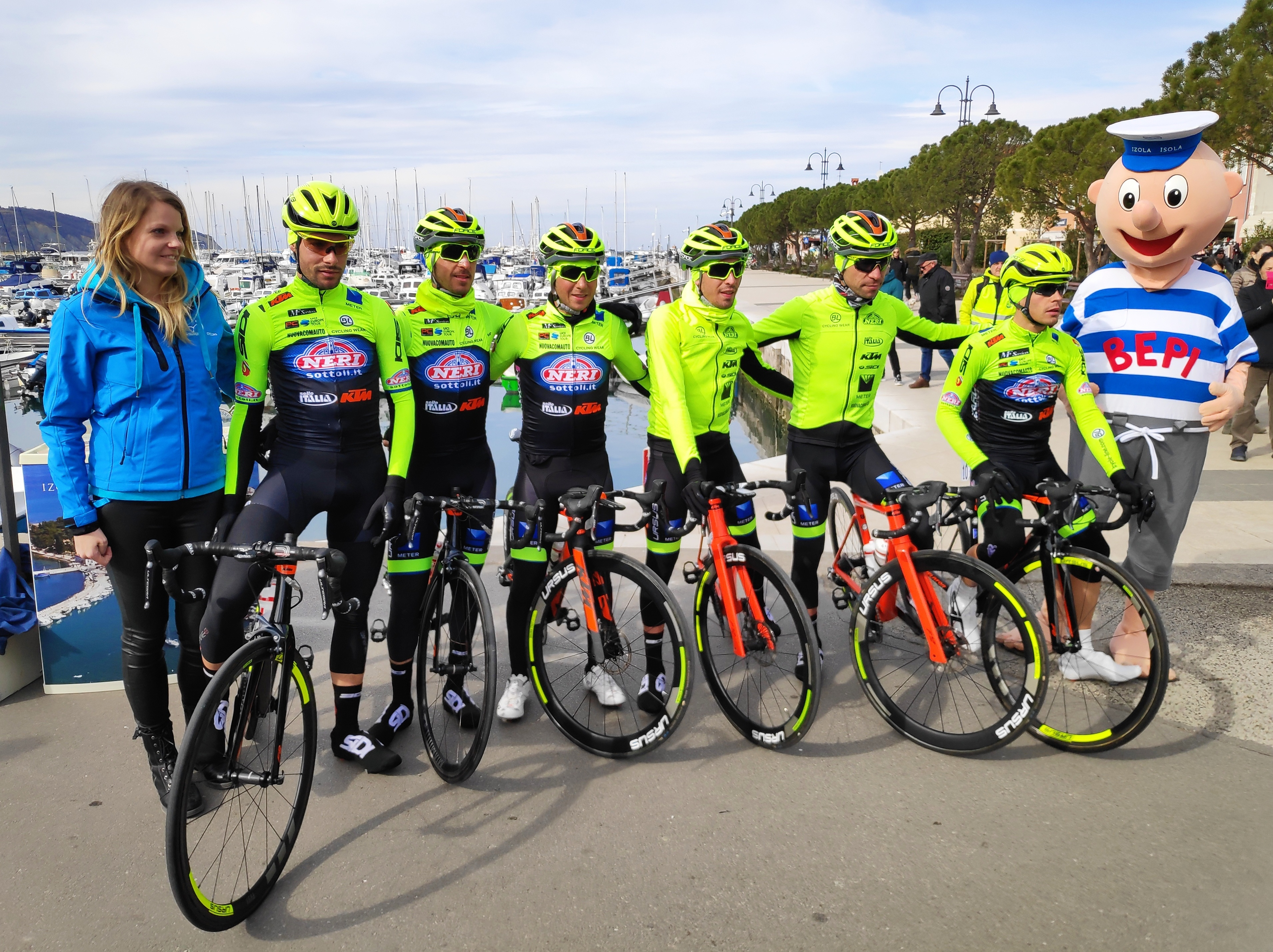 Neri Sottoli - Selle Italia - KTM at GP Izola 2019